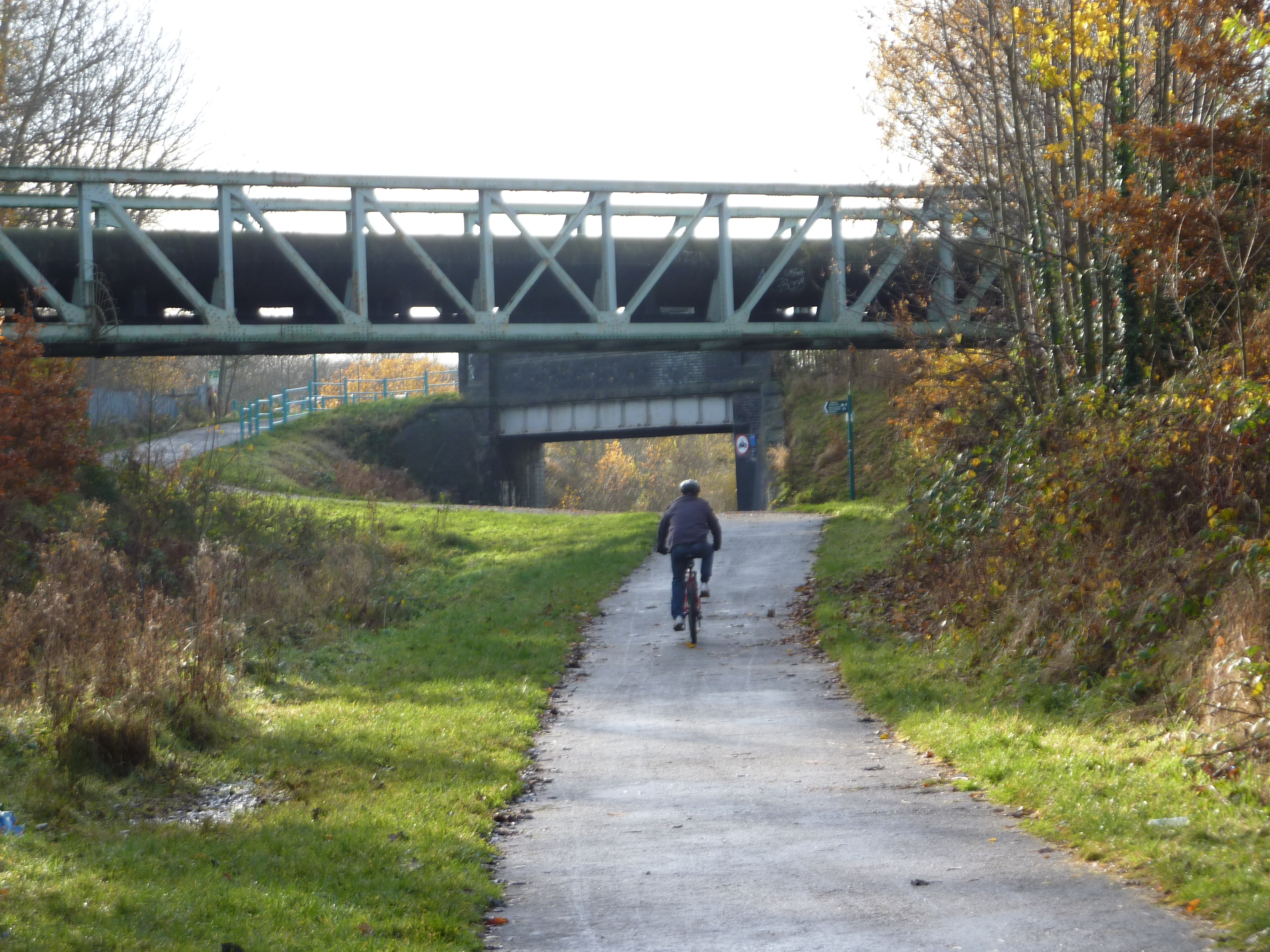 The Thirlmere Aqueduct with the Nelstrop Road access point and bridge visible in the distance